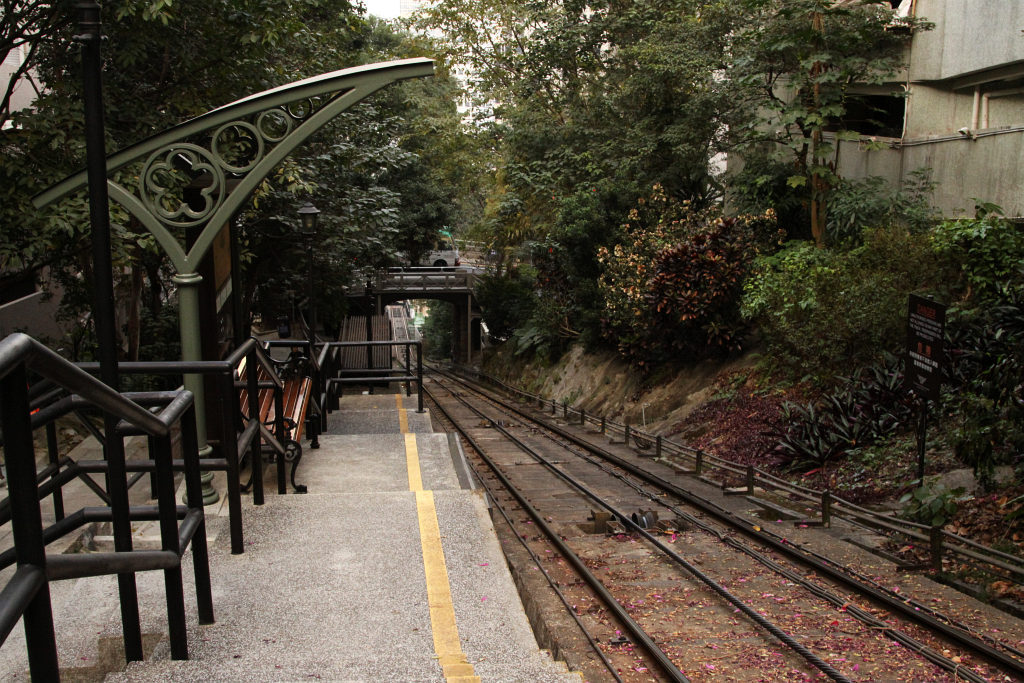 Looking downhill from MacDonnell Road (Peak Tram) on the Peak Tram in Hong Kong